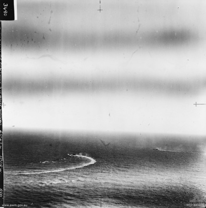 BAY OF BISCAY, 1943-07-30. TWO GERMAN SUBMARINES TAKING EVASIVE ACTION DURING AN ATTACK. THE TYPE XIV SUBMARINE TANKERS, U-461 AND U-462, ARE BEING ATTACKED BY SUNDERLAND "U" OF NO. 461 SQUADRON RAAF, HALIFAX "B" OF NO. 502 SQUADRON RAF AND LIBERATOR "O" OF NO. 53 SQUADRON RAF. THESE TWO U-BOATS WERE SUNK IN THIS ACTION, ALONG WITH U-502. THE PHOTOGRAPH WAS TAKEN FROM SUNDERLAND "U"